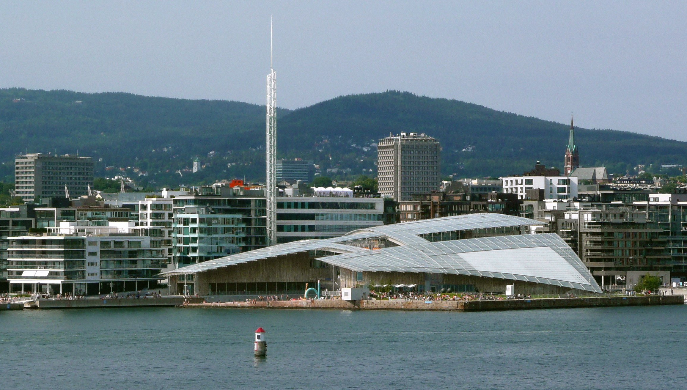 Astrup Fearnley Museum